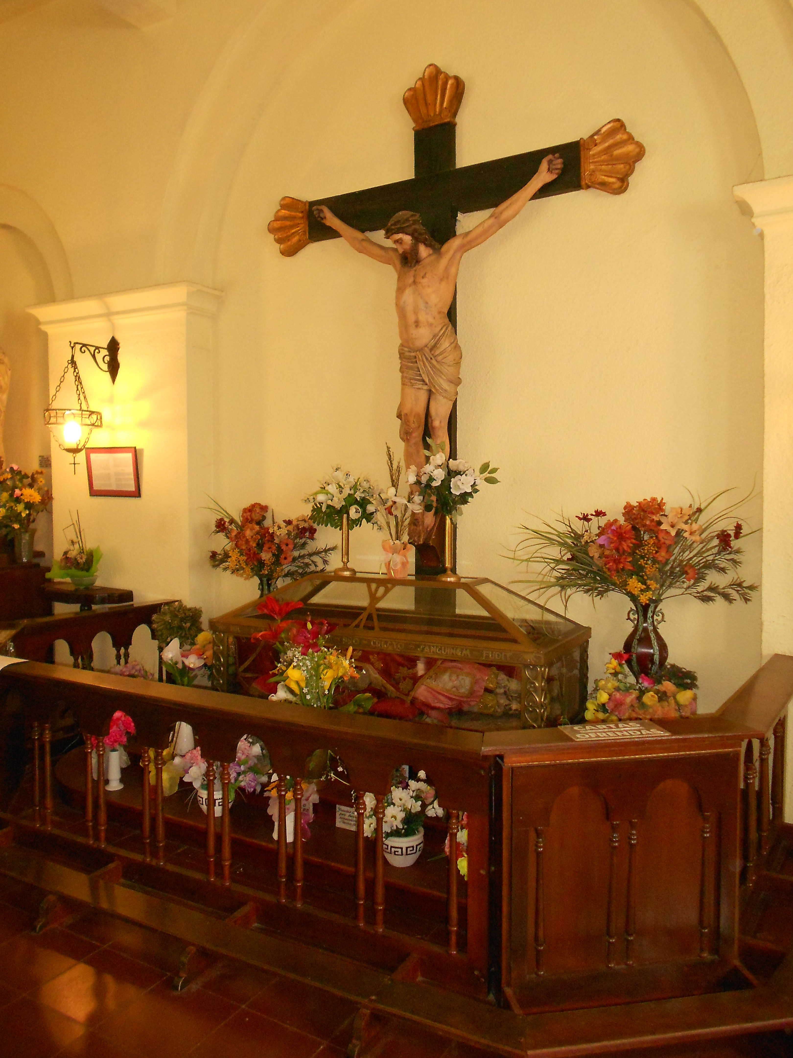 Sepulchre of San Clemente in the Cathedral of Linares, Chile